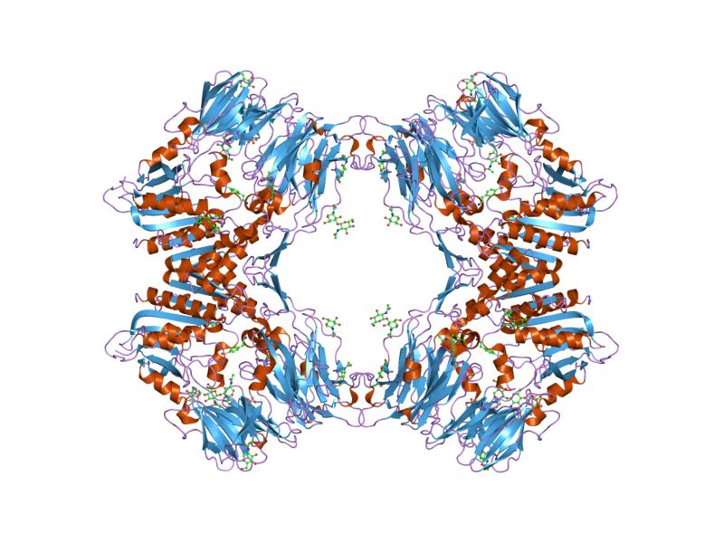 Cartoon representation of the molecular structure of protein registered with 2ajc code.